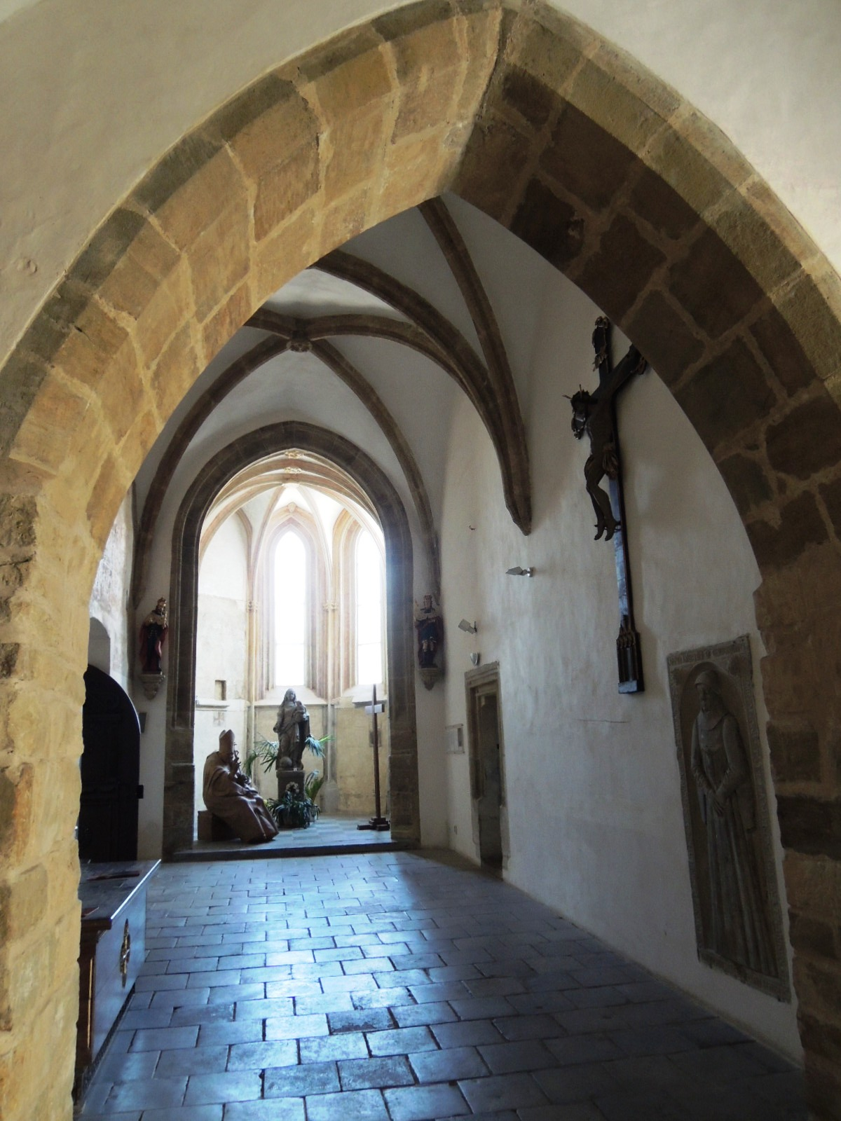 Litomyšl, chapel at the Church of the Exaltation of the Holy Cross